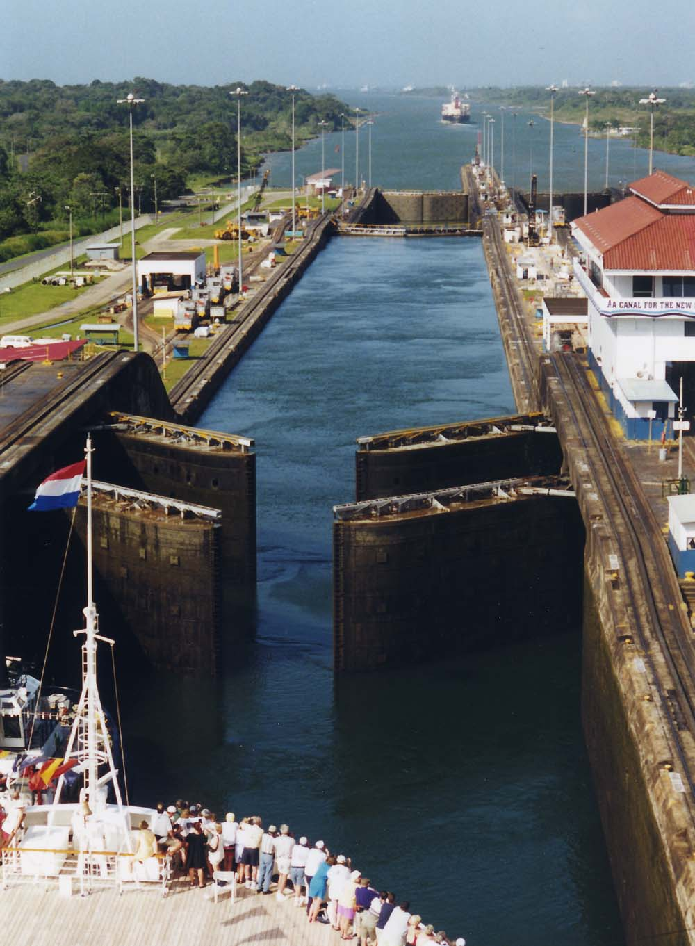 Panama Canal's Gatun Locks gates opening. The ship in the foreground is the Holland-America cruise ship MS Ryndam.